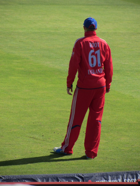 Joe Root fielding in the deep for ENG v AUS in 2nd ODI at Old Trafford, 2013